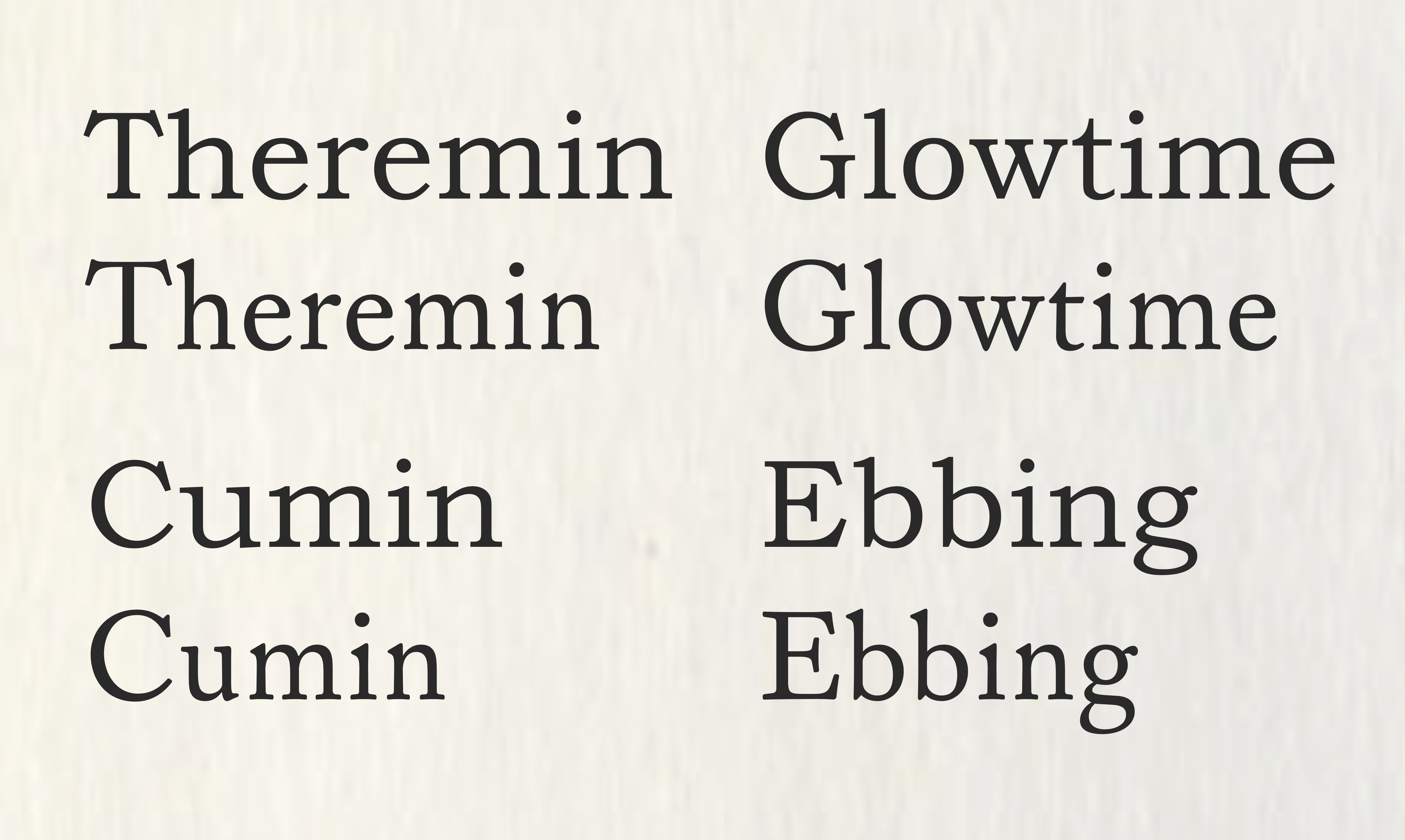 Comparison between Monotype Bookman (above in the samples) and Caslon (below; the Williams Caslon Text revival is used), scaled to matching cap height. The lower-case letters of Bookman are wider and higher (a higher x-height). The original metal type Bookman was not quite like this, but almost all modern digital versions of Bookman follow the style of the influential ITC Bookman of 1975, and Monotype Bookman is one of these.